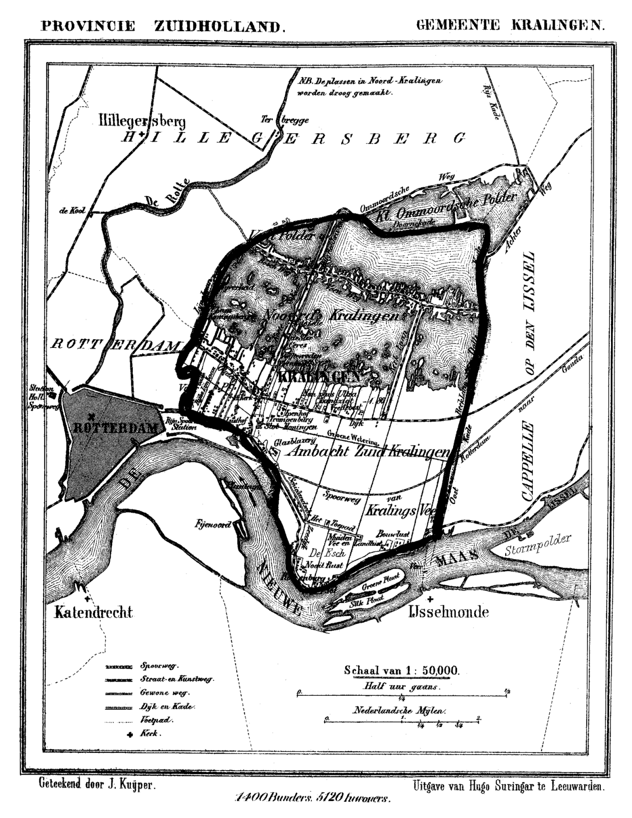 Historic map of Kralingen (now part of municipality Rotterdam), South Holland, the Netherlands